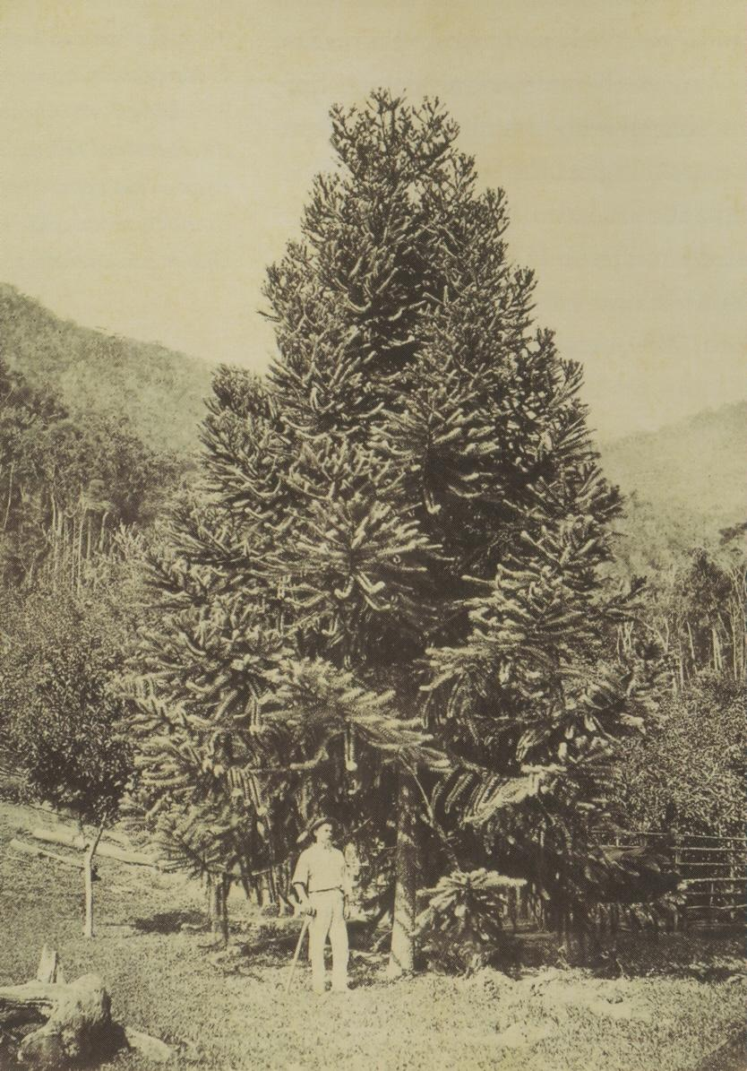 German immigrant near the city of Vitória in the province of Espírito Santo, 1875.